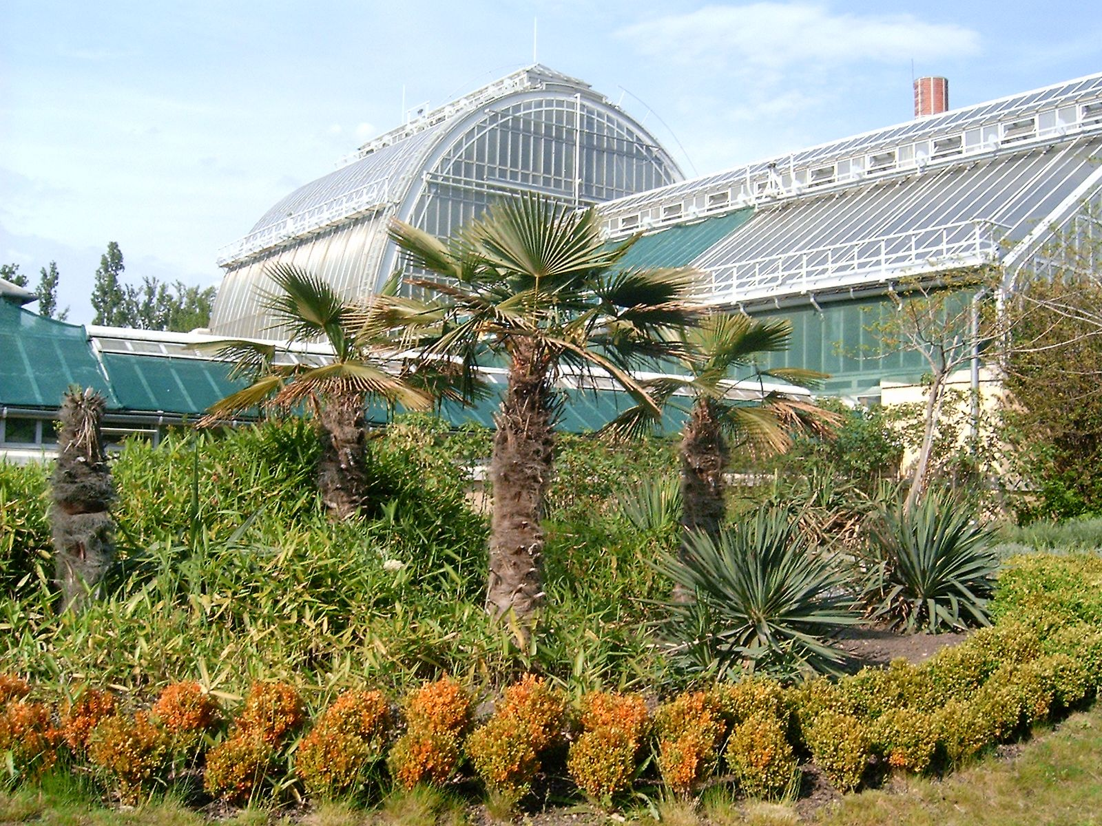 America Tropicana (formerly known as Palm House) at the Budapest Zoo